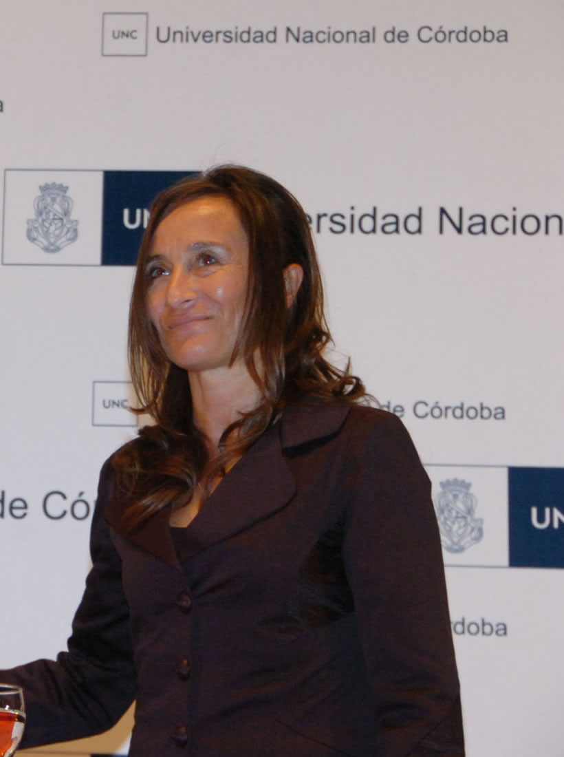 Carolina Scotto, Rector of the National University of Córdoba for the period 2007-2013. Cordoba, Argentina.